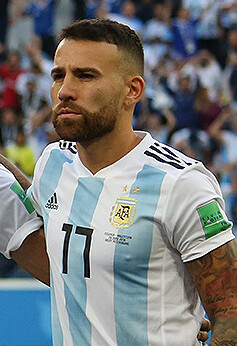 Argentina vs Nigeria match